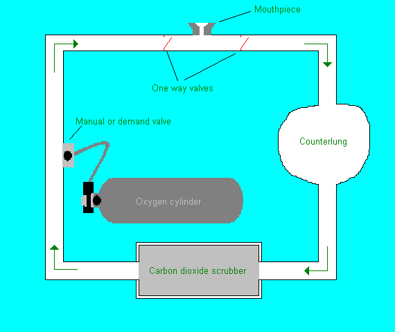 Diagram of a simplified Oxygen rebreather